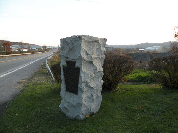 Picture of the stone marker at or near the former site of Legionville (1792-1793), located near present-day Ambridge in Beaver County, Pennsylvania, USA, on October 30, 2009. The plaque on the stone says the following: "On the plateau, southwest of this spot, was situated the camp of the army of General Anthony Wayne. This army, known as the Legion of the United States, encamped at this place when on the expedition against the Indians west of the Ohio from November 1792 until April 1793. The expedition resulted in the Treaty of Greenville, which was signed in the summer of 1795. Erected by the Pennsylvania Historical Commission and the Historical Society of Western Pennsylvania, 1918."